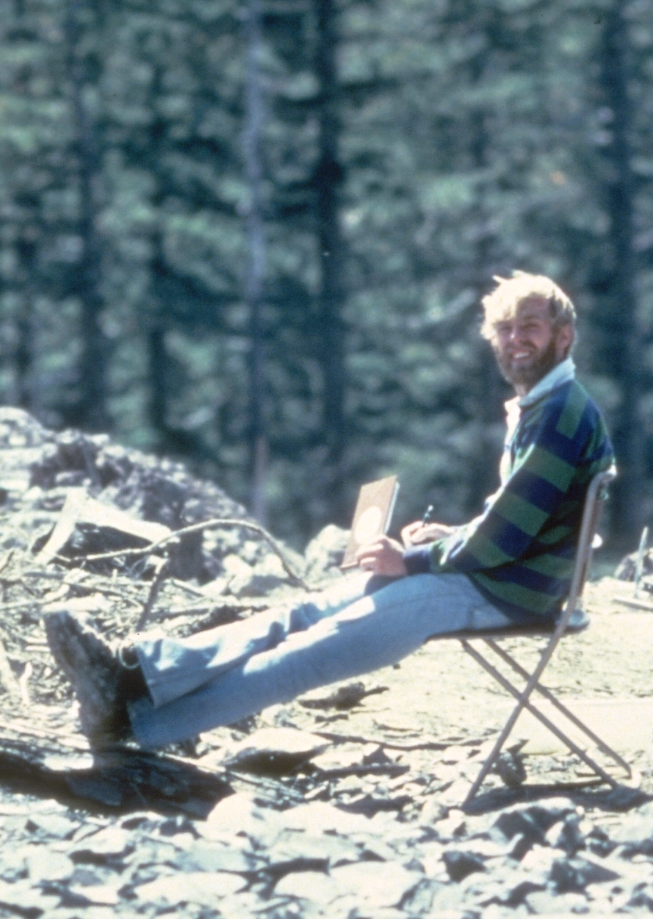 Photo of David A. Johnston, taken by Harry Glicken on May 17, 1980 at 19:00, 13 1/2 hours before the 1980 eruption of Mount St. Helens